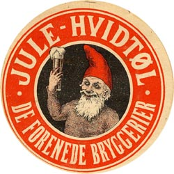 Christmas beer topfermented beer with low percentage of alcohol. Label from Royal Brewhouse Copenhagen 1896. First industrial Christmas beer in DK